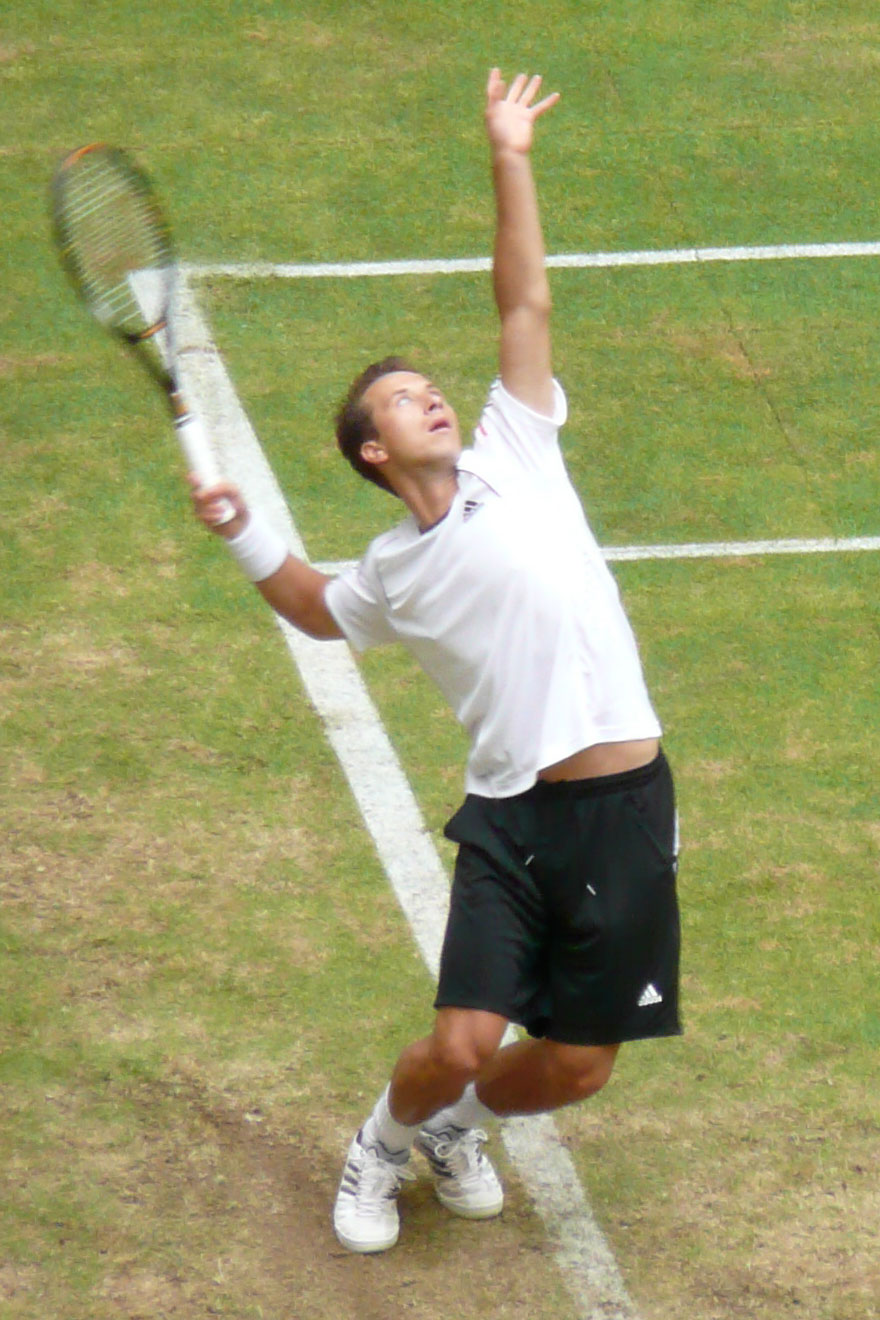 Gerry Weber Open 2008 - Center Court, Philipp Kohlschreiber vs. Tommy Haas